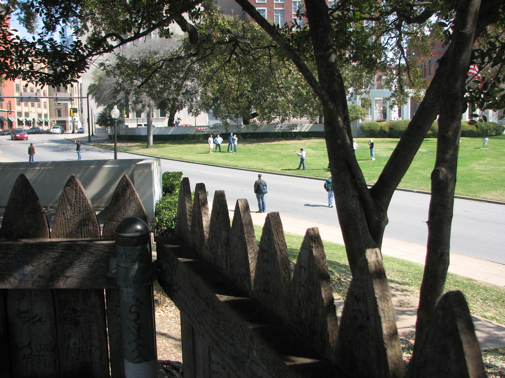 Wooden palisade fence at the Dealey Plaza, Dallas, TX.